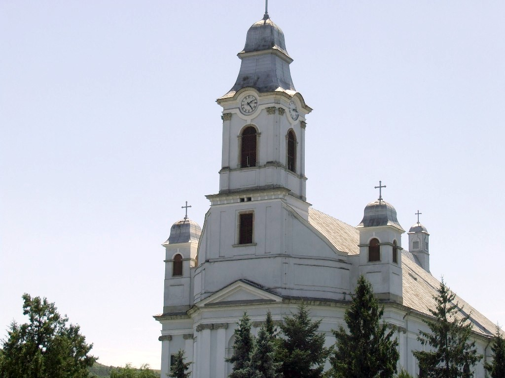 Armenian-Catholic cathedral in Gherla, Cluj County, Romania